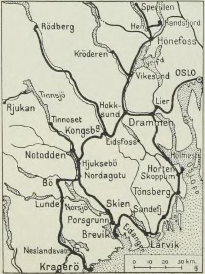 Map from railway travel handbook, issued by NSB in 1932.